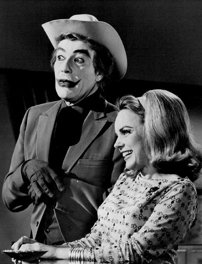 Photo of Cesar Romero as The Joker and Terry Moore as his associate, Venus, from the television program Batman.